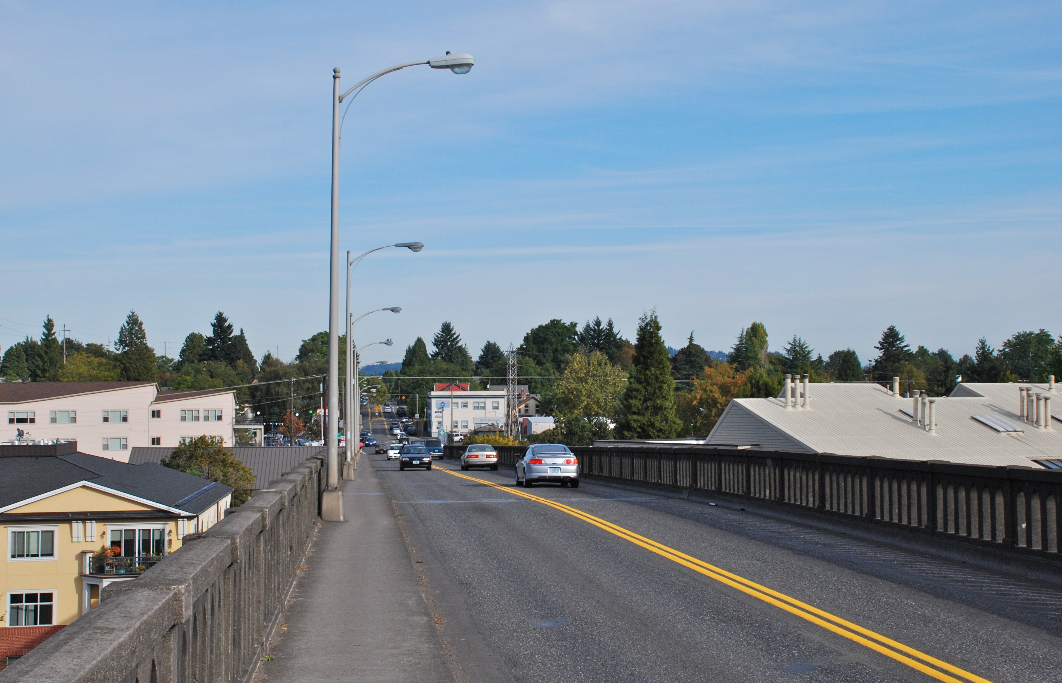 A street-level view of the Sellwood Bridge, in Portland, Oregon, showing the narrow sidewalk and roadway. This photo is looking east, towards the Sellwood neighborhood, from near the bridge's east end.